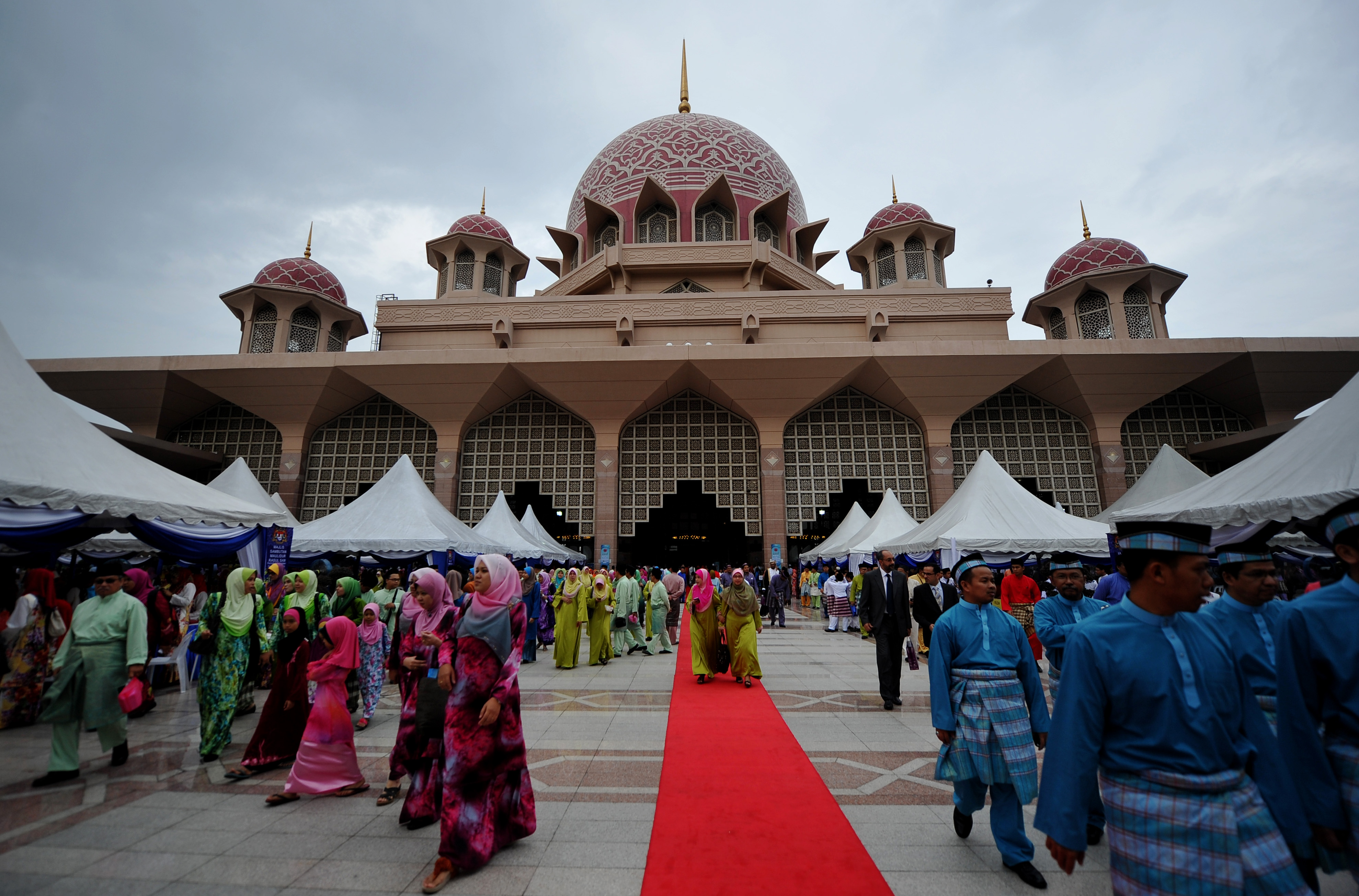 Putrajaya,24/01/2013. Malaysian Muslims participate in a Maulidur Rasul parade in Putrajaya, aslo known as Mawlid the birthday of Prophet Muhammad at Putrajaya Putra Mosque..Pix Firdaus Latif